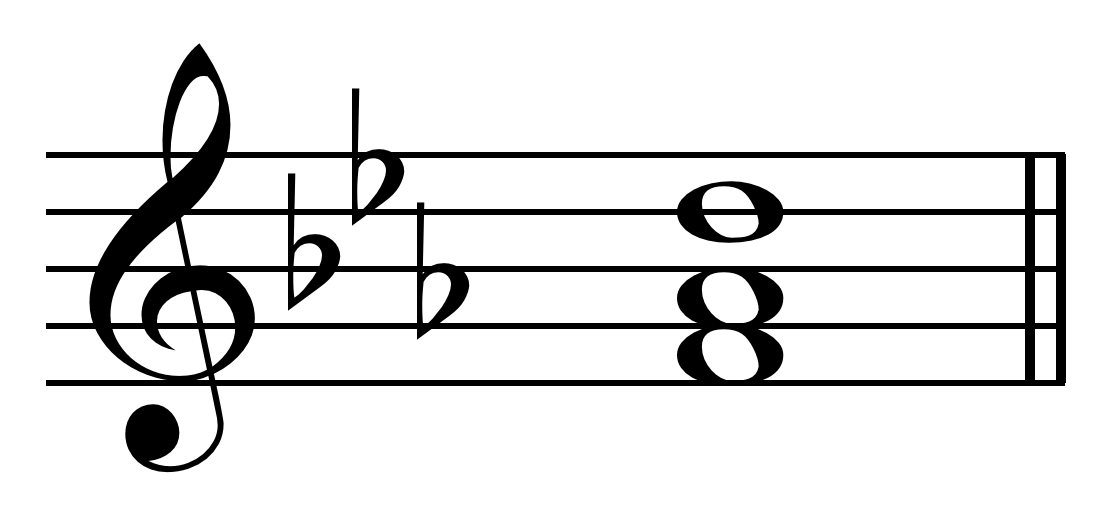 iidim6 chord in C.